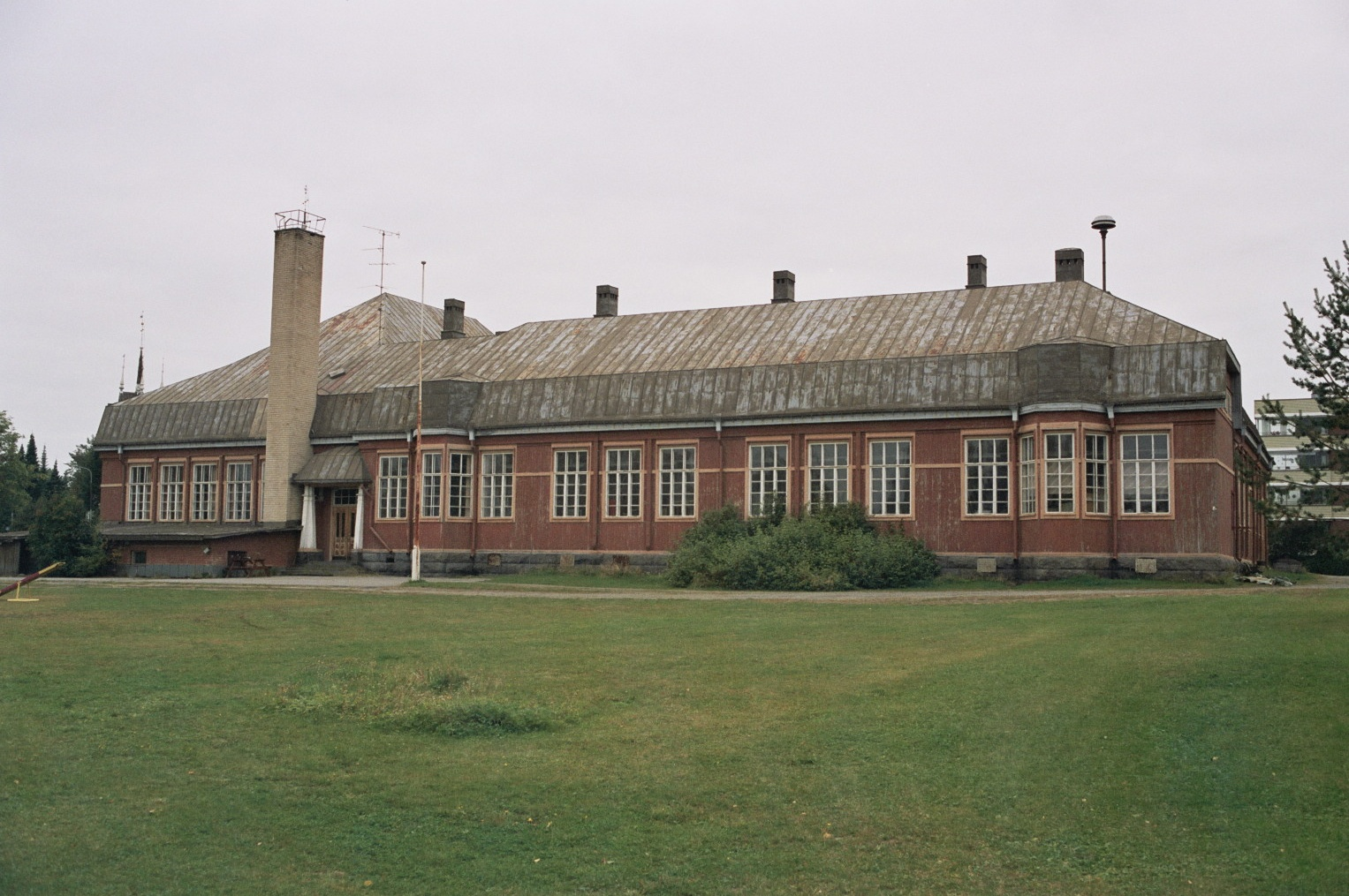 Porthan's School, an old school building in the Suensaari district of Tornio, Finland. It was constructed in 1910.